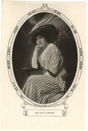 Lillian Albertson|Lillian Albertson (August 6, 1881 – August 24, 1962) was an American stage and screen actress, and a noted theatrical producer. She and her husband, Louis O. Macloon, were credited with discovering future film star Clark Gable